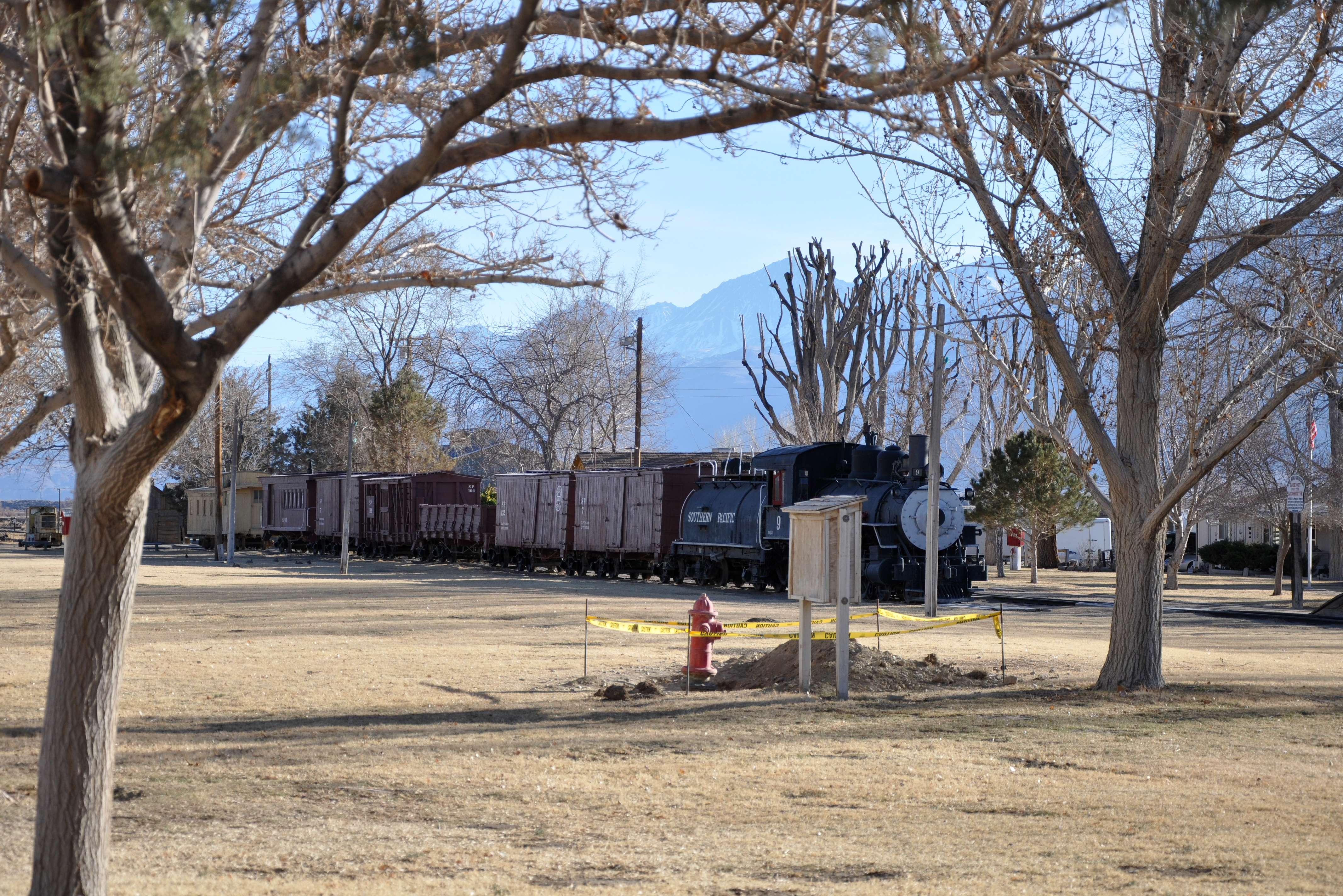 Part of Laws Narrow Gauge Railway Historic District in Laws in the U.S. state of California.